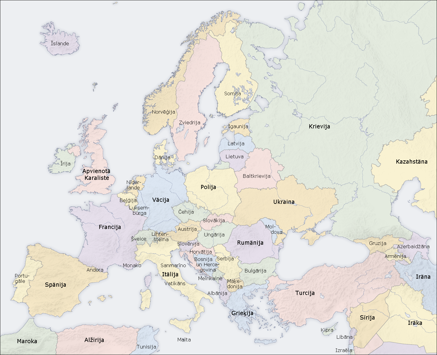 Map of countries in Europe